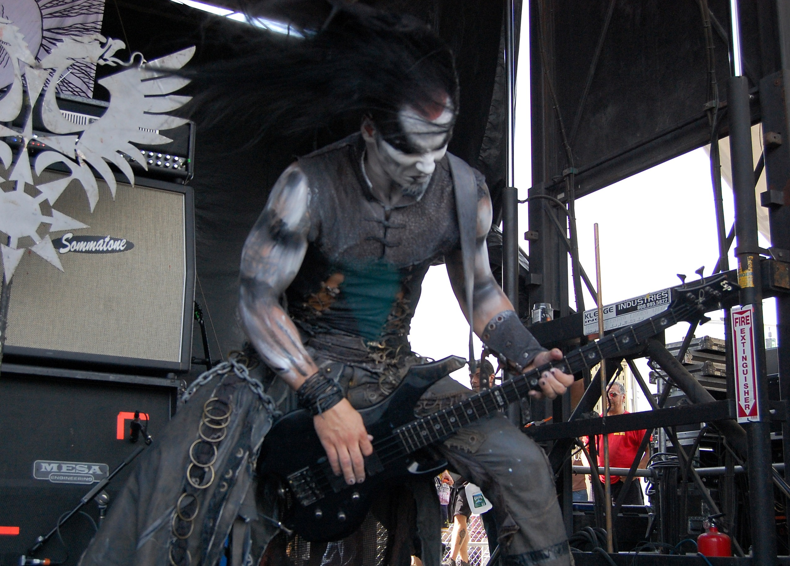 Behemoth at Mayhem Fest Hartford